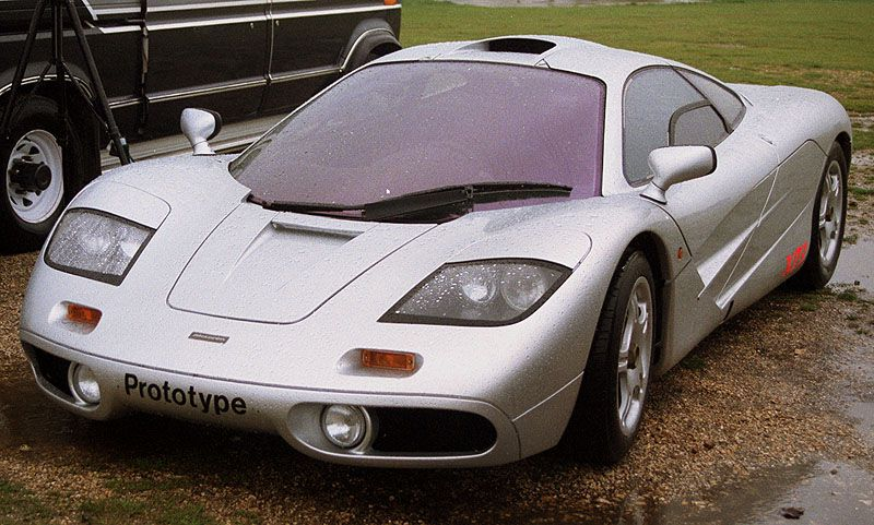 The date is 20th May 1993. We were at track day with our kit car , and were surprised that the McLaren company was also using the track that day to test the Prototype McLaren F1`s you see here. ( I think this became Gordon Murrays car - I saw it on a documentary with the registration K50 BAT ) McLaren F1 XP3 prototype.